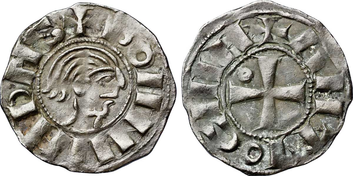 Denier à l'effigie de Bohémond III de la Principauté d'Antioche, 1149-1163